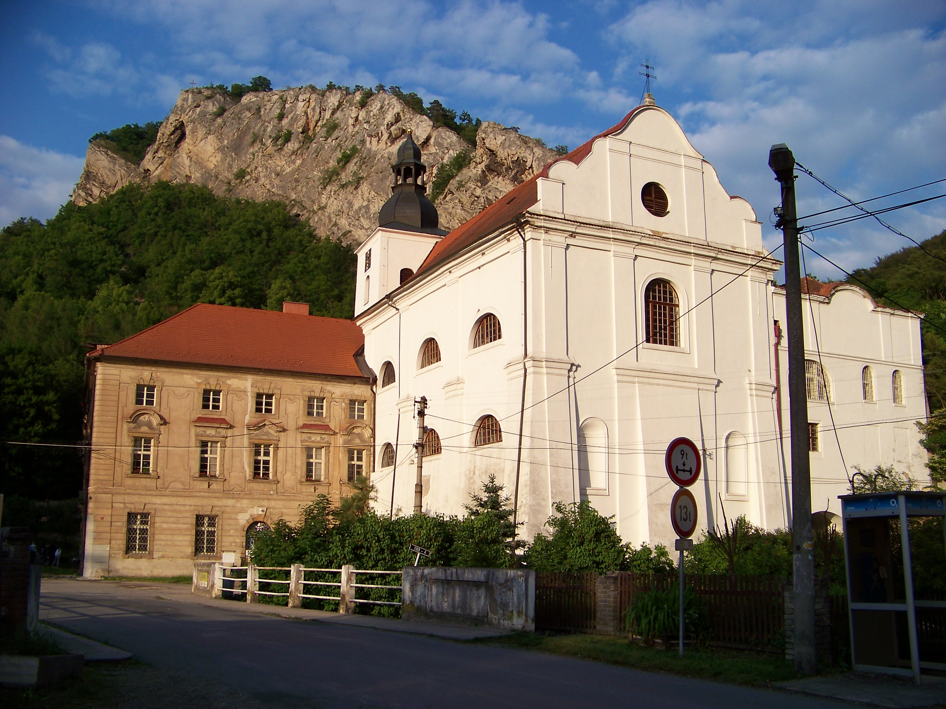 Svatý Jan pod Skalou, Beroun District, Central Bohemian Region, the Czech Republic. A monastery with the Saint John Rock.